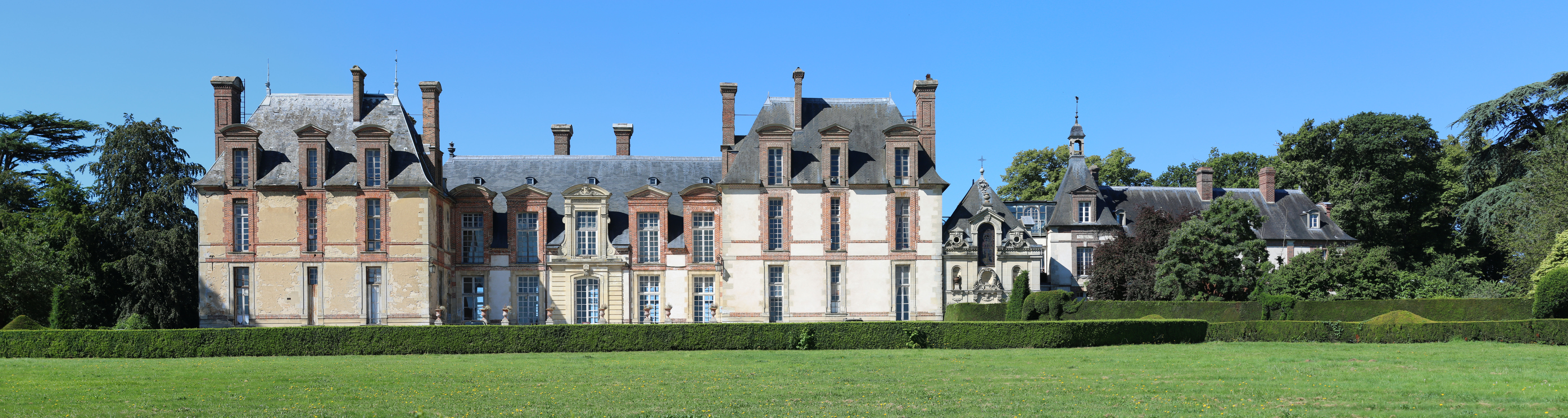 Chateau de Thoiry, located about 50 km west of Paris.